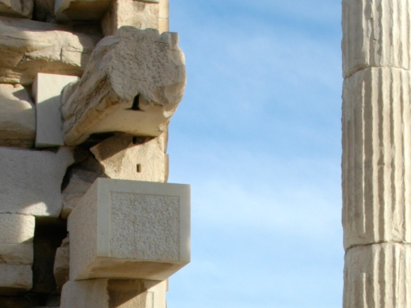 (L) Anathyrosis on a restored stone below and an ancient stone above in the Erechtheion in AthensJ. Matthew Harrington, personal digital image